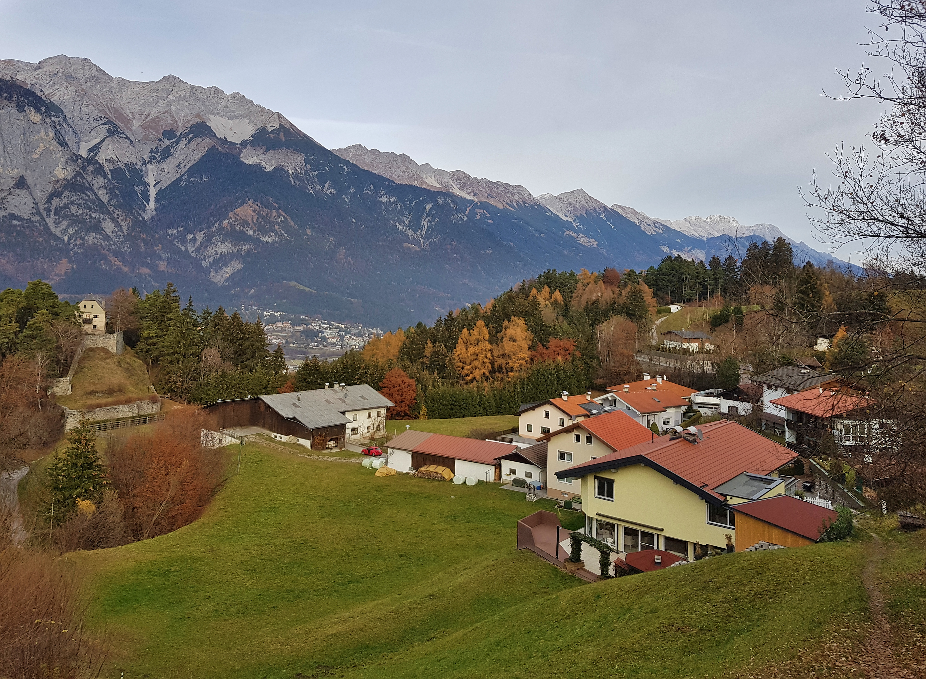 Vellenberg This media shows the remarkable cultural object in the Austrian state of Tyrol listed by the Tyrolean Art Cadastre with the ID 35665. (on tirisMaps, pdf, more images on Commons, Wikidata)